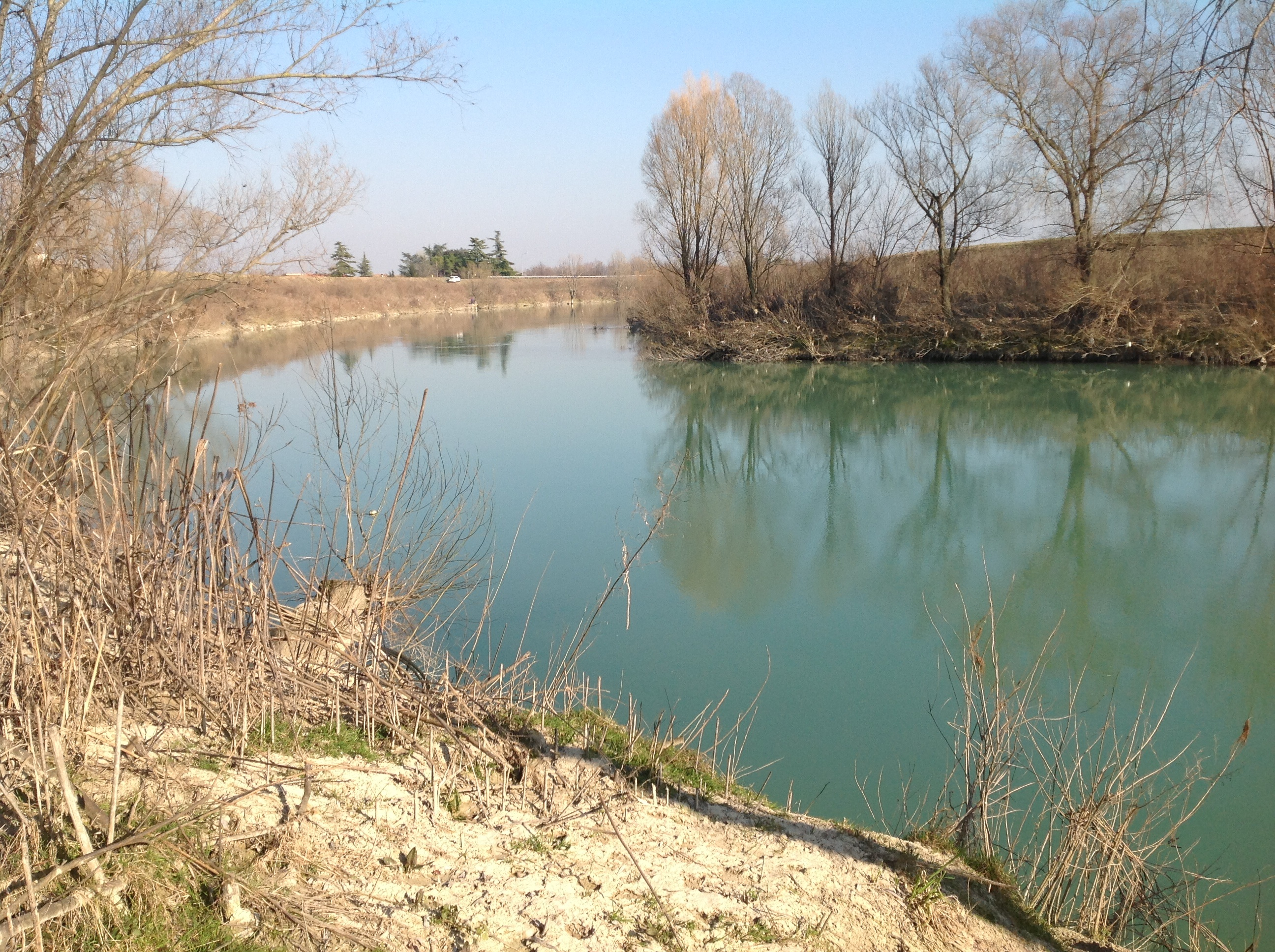 Un fiume sanstinese